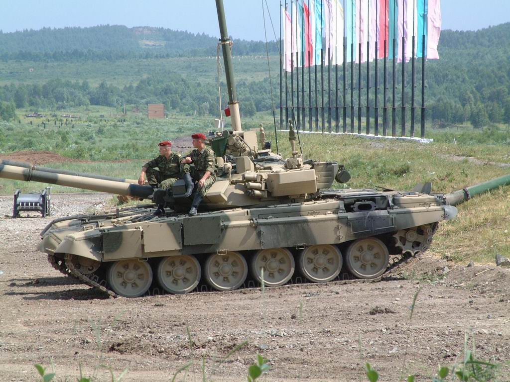 A T-90 tank during the defence exhibition Russian Expo arms.